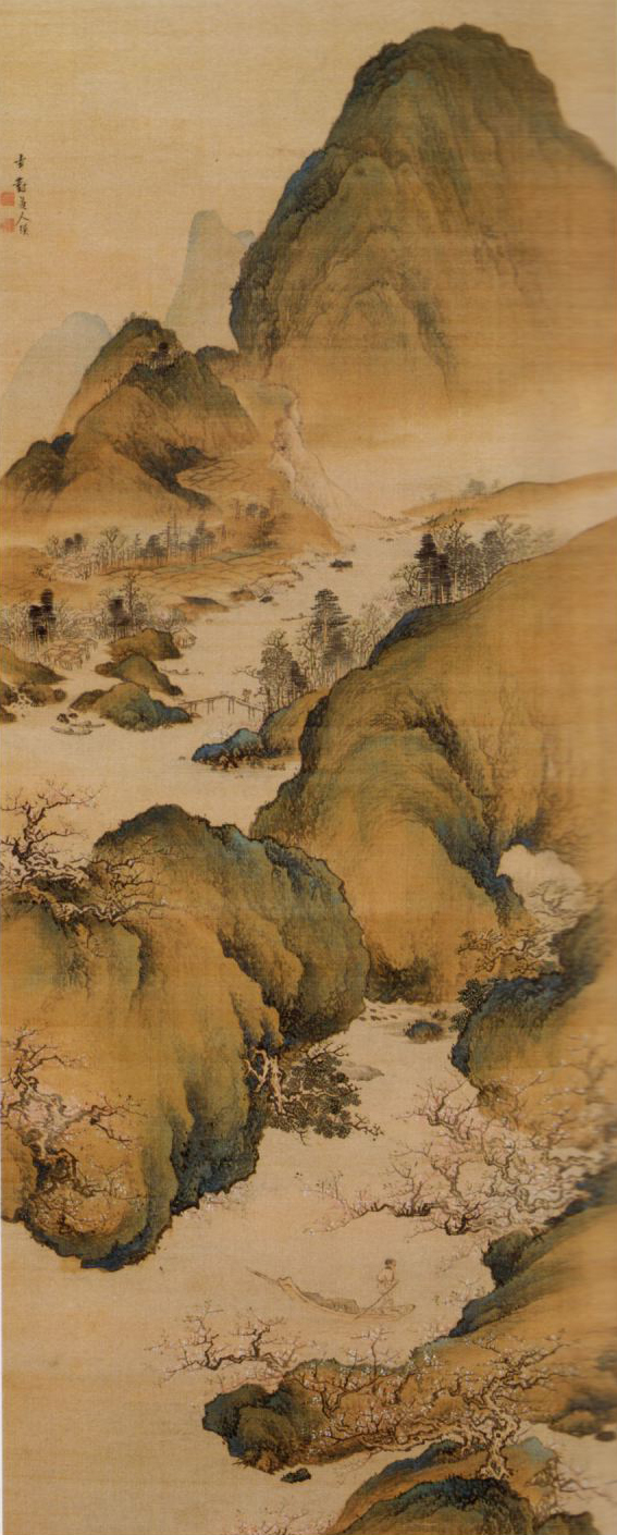 A_landscape_of_the_peach_utopia 武陵桃源図 絹本着色